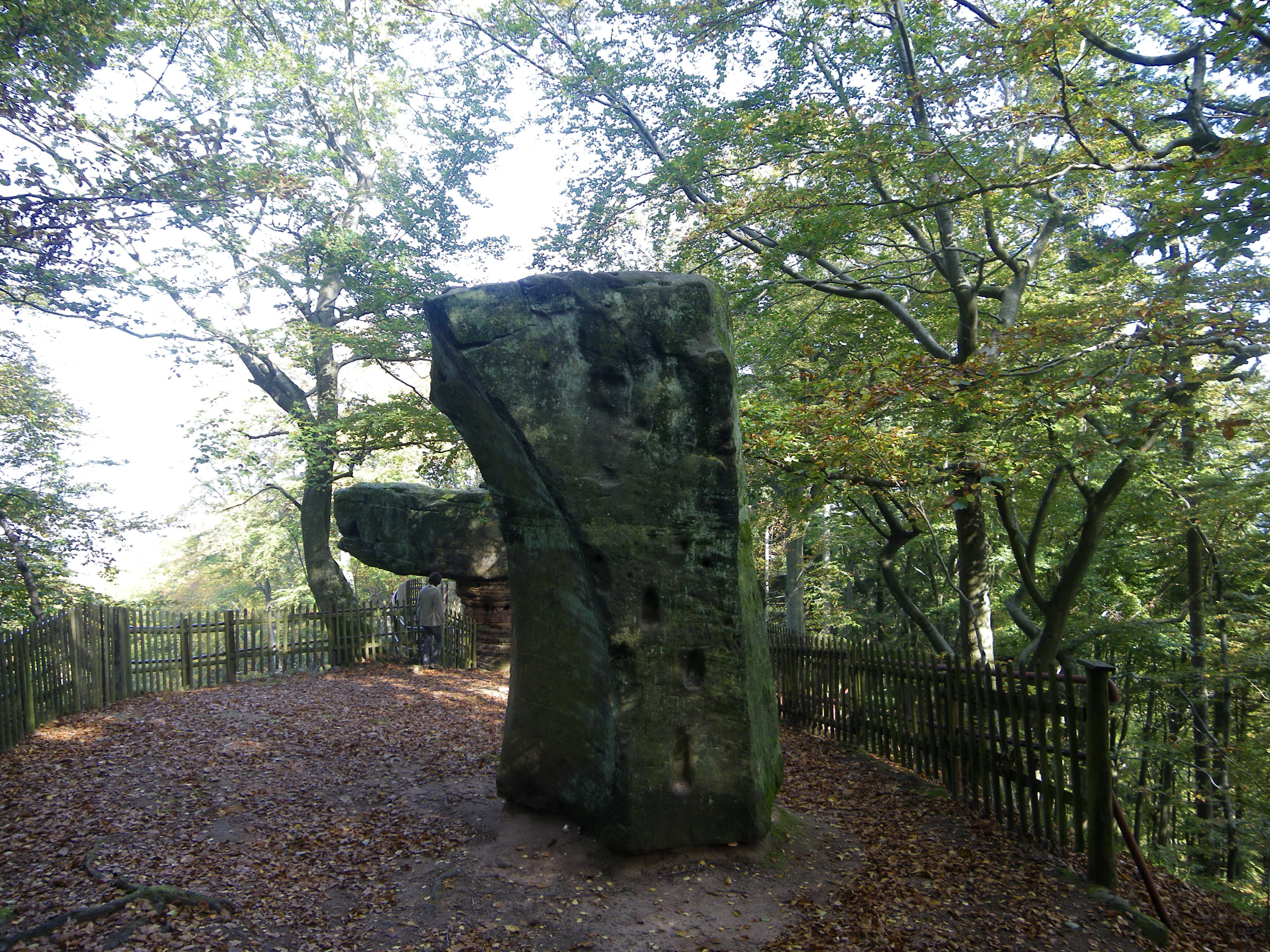 The devil's table at Sankt Ingbert, Germany